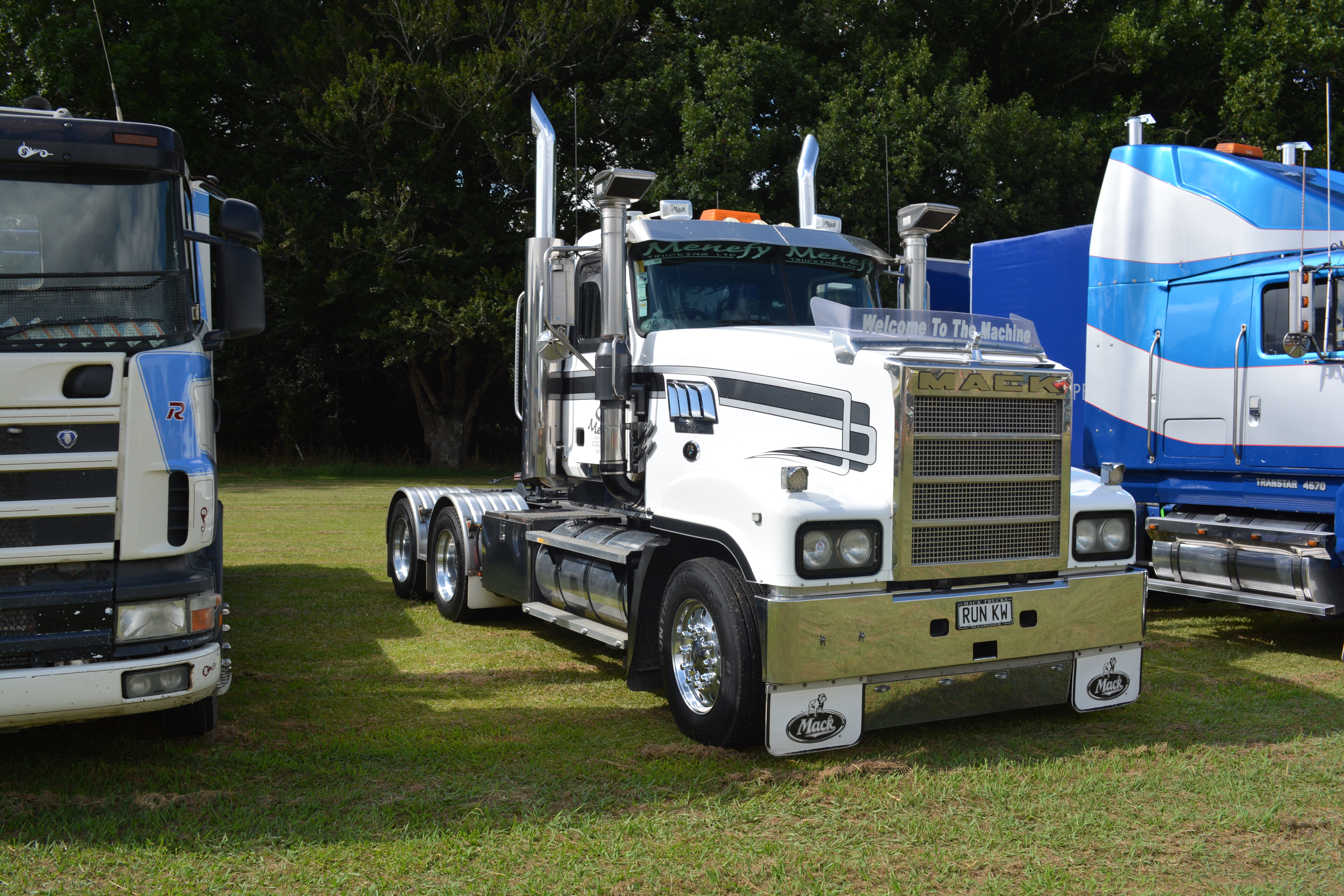 At Morrinsville,New Zealand